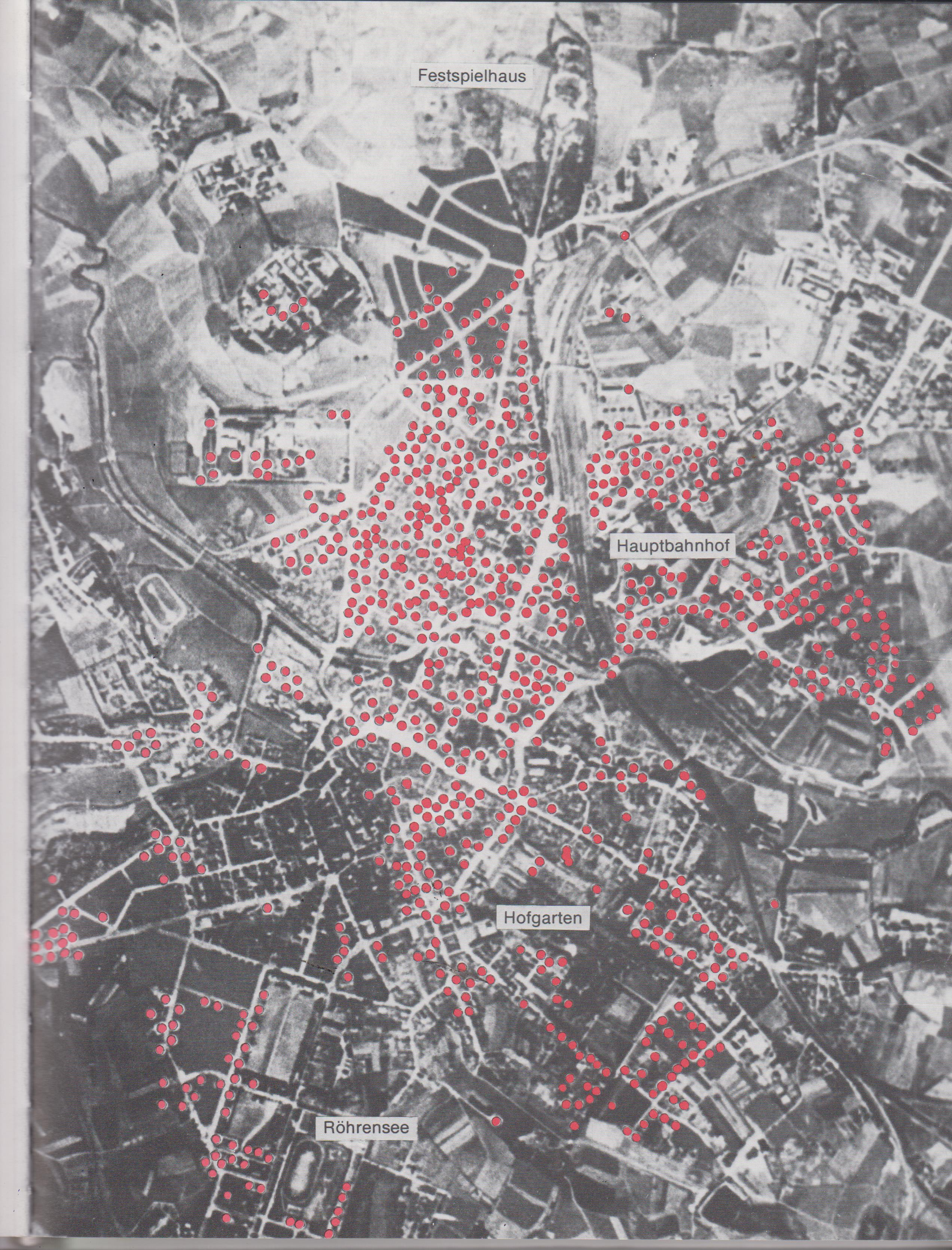 Bayreuth Plan of Destructions